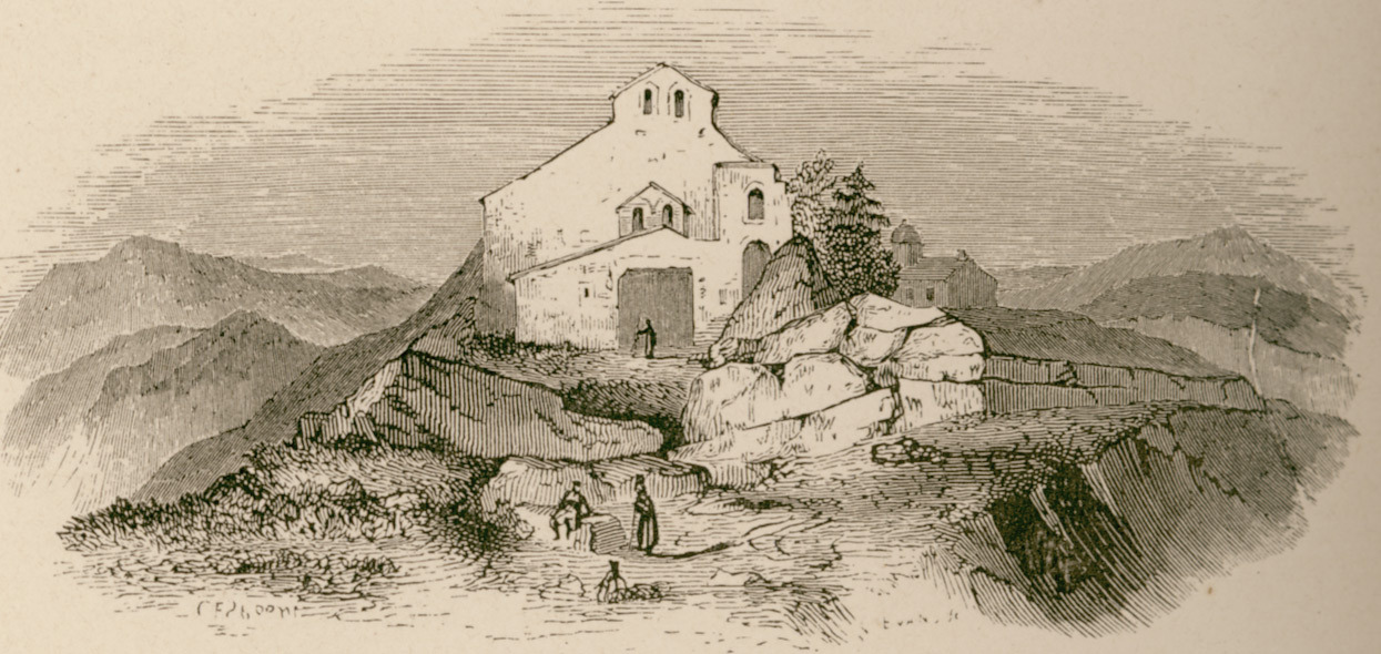 Christopher Wordsworth. Greece Pictorial, Descriptive, & Historical, and a History of the Characteristics of Greek Art, London, John Murray, 1882.